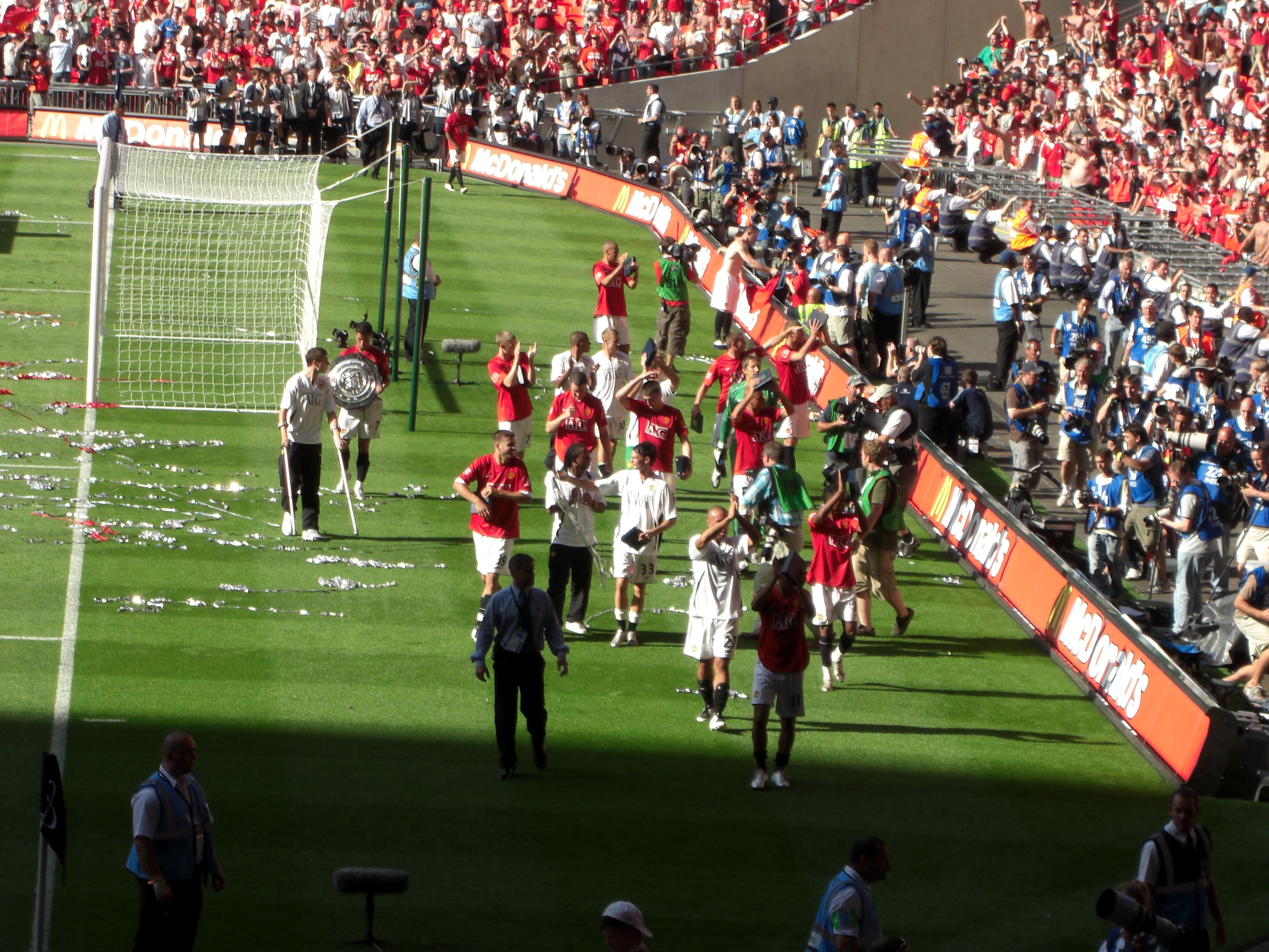 Manchester United vs Chelsea 1-1 (3-0 after panalties) - Community Shield at Wembley